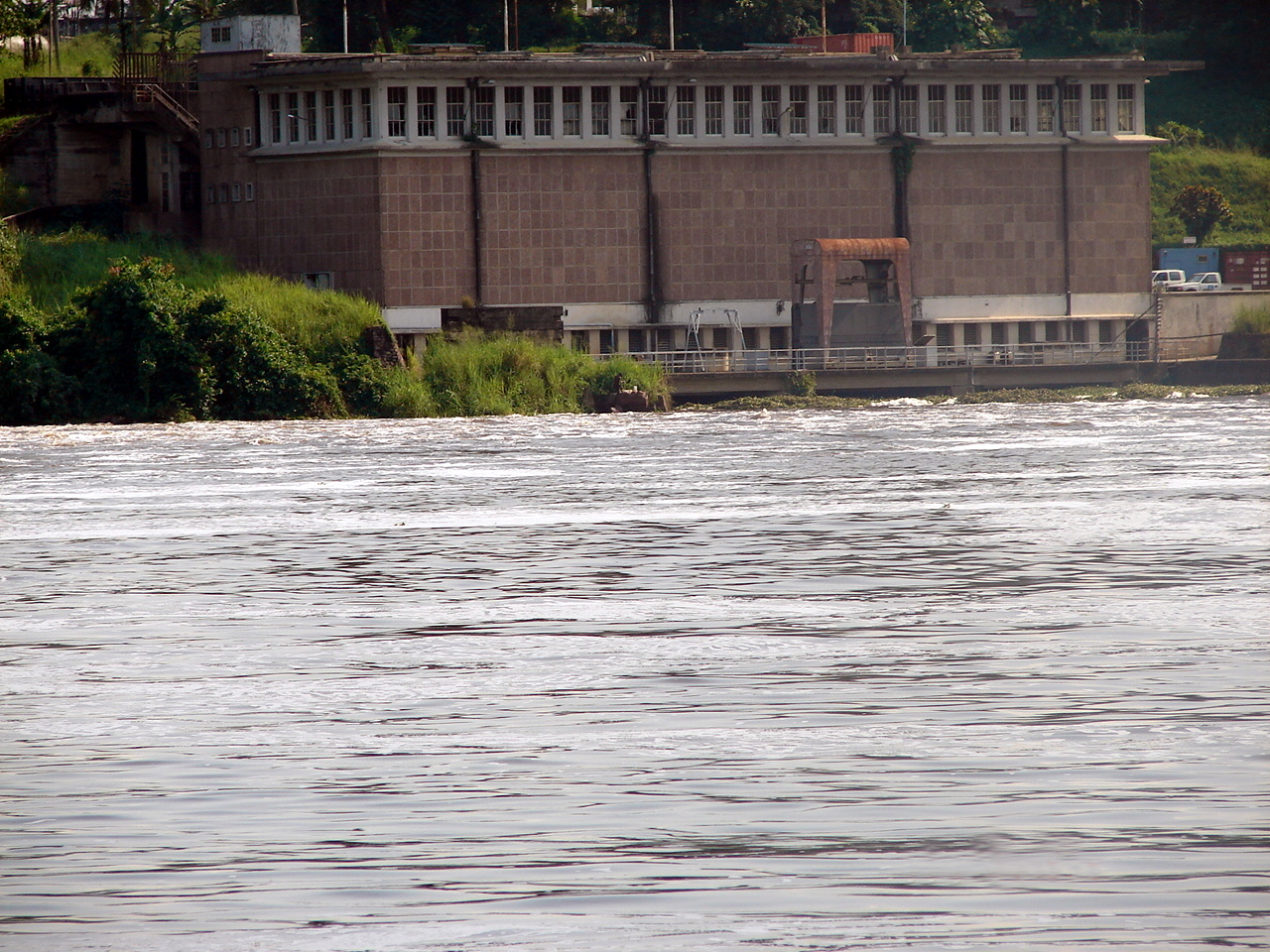 River dam